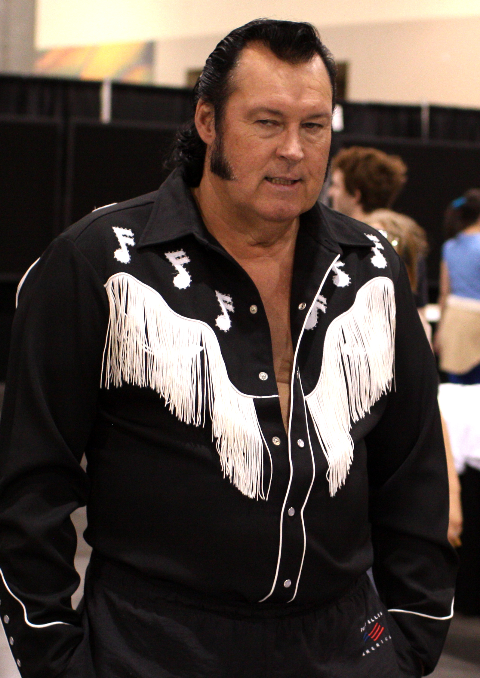 The Honky Tonk Man at the 2012 Phoenix Comicon in Phoenix, Arizona.